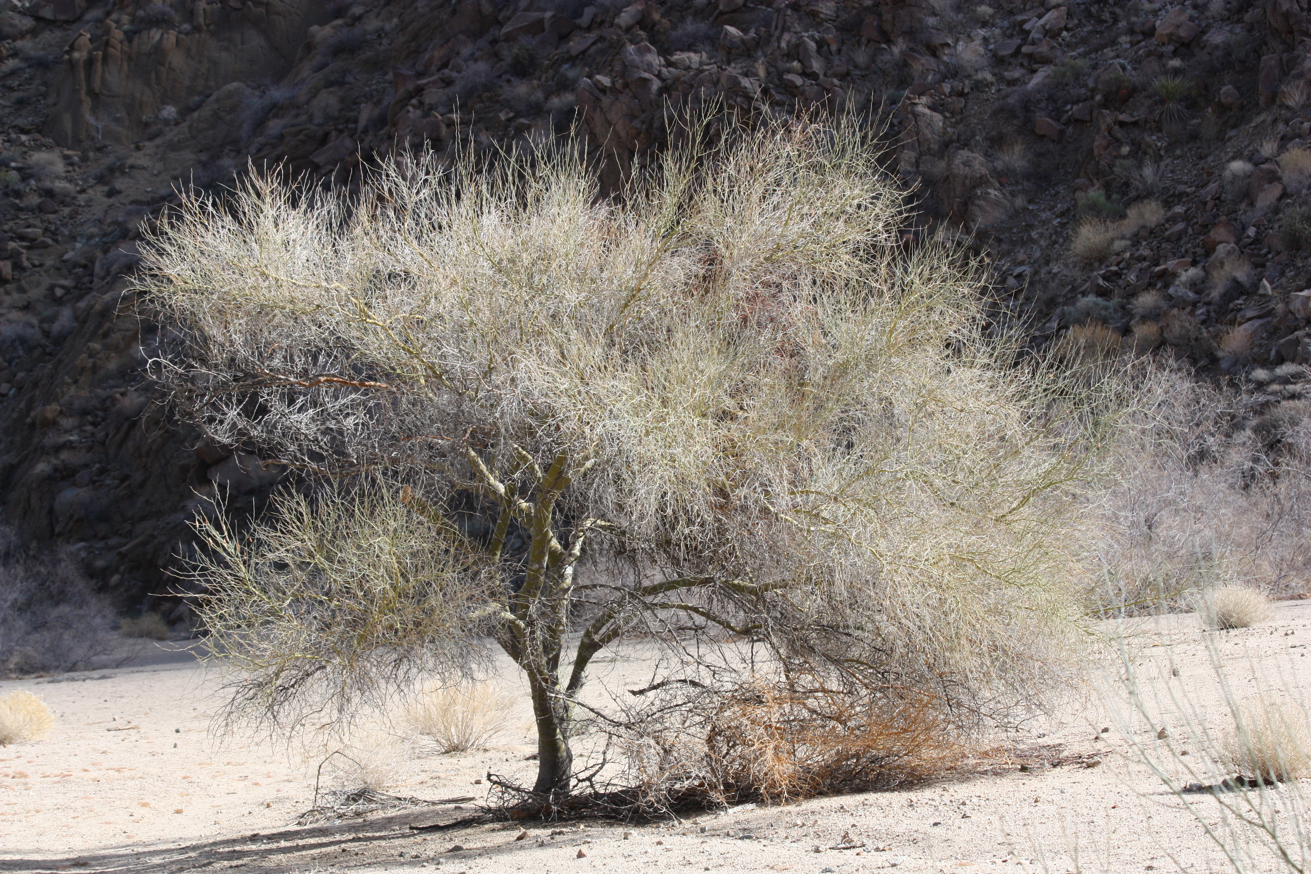 Tree, shrubs, and grasses of Joshua Tree National Park: Blue palo verde (Cercidium floridum); Cottonwood Canyon